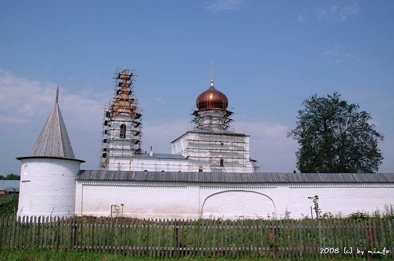 Russia. Tverskaya Oblast. Orshin Monastery